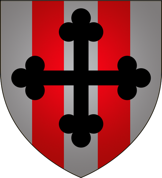 Coat of arms of the municipality of Junglinster, Luxembourg